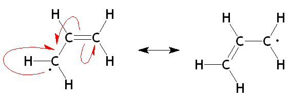 chemical structure showing resonance of allyl radical